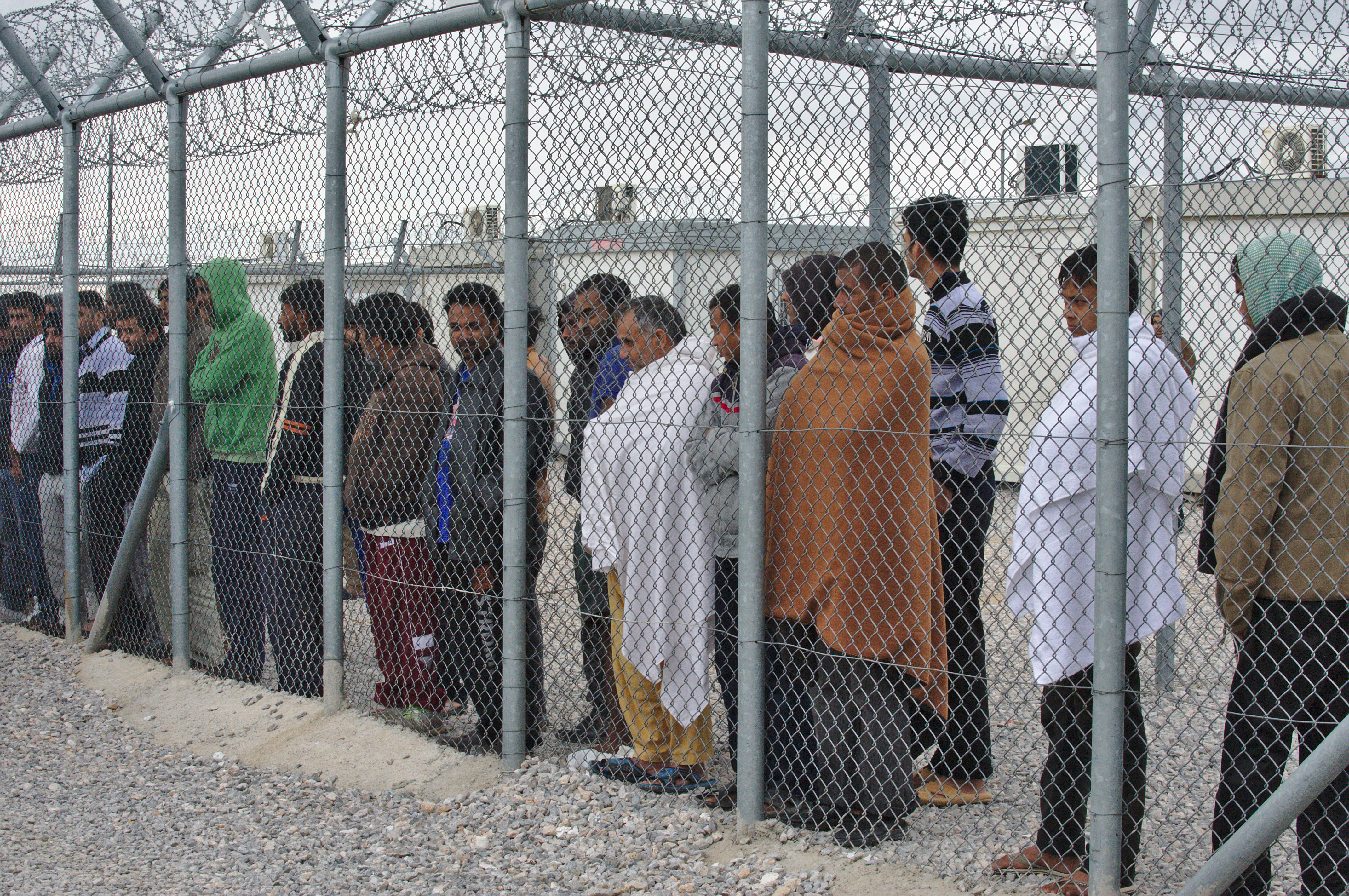 Detainees behind the fence at Amygdaleza detention center, Feb 2015; some have no winter footwear